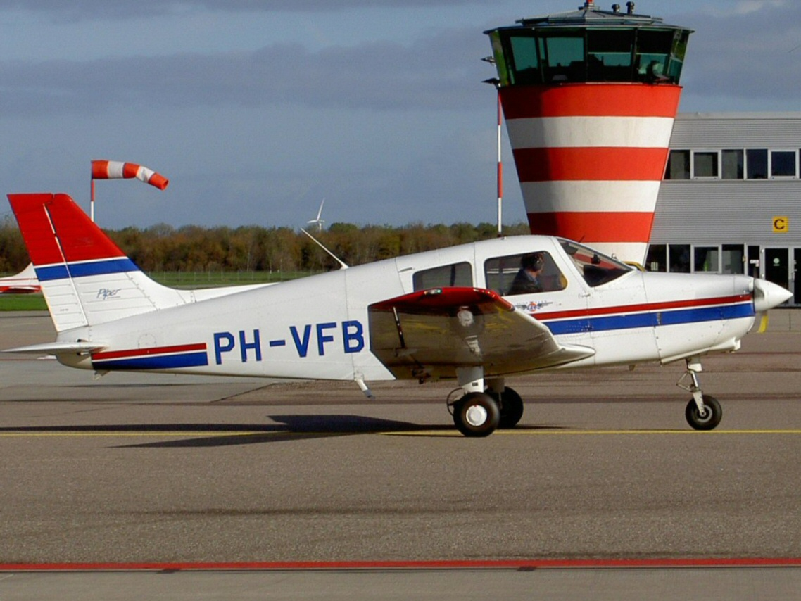 Piper PA-28-161 PH-VFB at Lelystad airport.